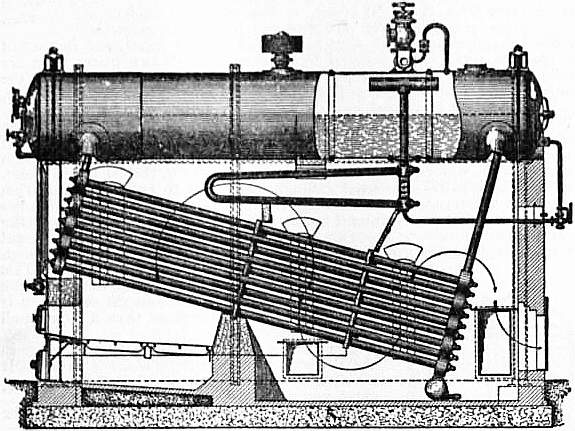 Babcock & Wilcox water-tube Boiler This image comes from the 12th edition of the Encyclopædia Britannica or earlier. The copyrights for that book have expired in the United States because the book was first published in the US with the publication occurring before January 1, 1923. As such, this image is in the public domain in the United States. This image comes from the Project Gutenberg archives. This is an image that has come from a book or document for which the American copyright has expired and this image is in the public domain in the United States and possibly other countries. Note: Not all works on Project Gutenberg are in the public domain. Some public domain works may have trademark restrictions where all references to the Project Gutenberg must be removed unless the following text is prominently displayed according to The Full Project Gutenberg License in Legalese (normative): This eBook is for the use of anyone anywhere at no cost and with almost no restrictions whatsoever. You may copy it, give it away or re-use it under the terms of the Project Gutenberg License included with this eBook or online at